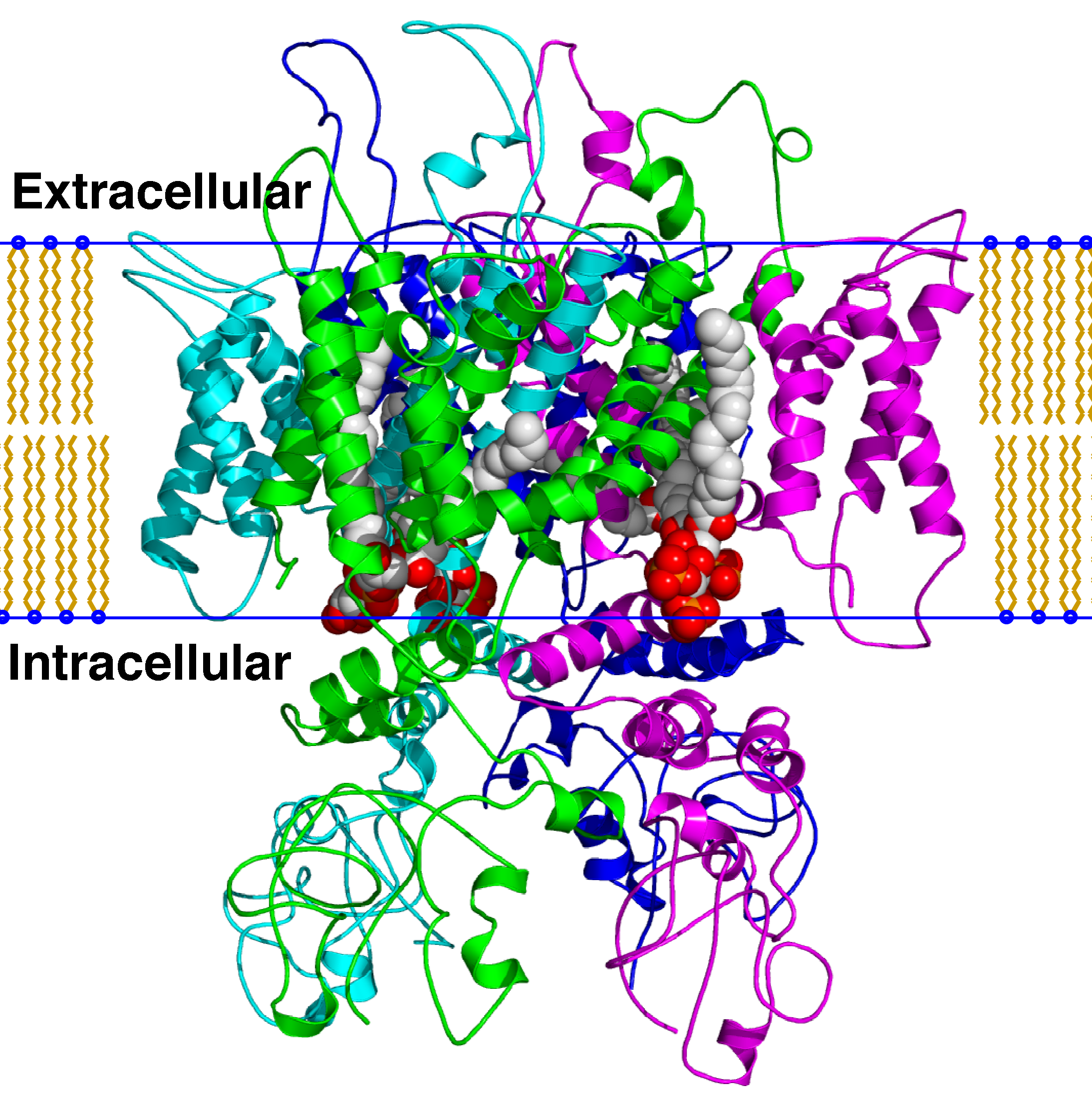 Created using PyMol and a homology model of the TRPV1 ion channel based on a homology model published in Brauchi S, Orta G, Mascayano C, Salazar M, Raddatz N, Urbina H, Rosenmann E, Gonzalez-Nilo F, Latorre R (June 2007). "Dissection of the components for PIP2 activation and thermosensation in TRP channels". Proceedings of the National Academy of Sciences of the United States of America 104 (24): 10246–51. PMID 17548815. PMC: 1891241.